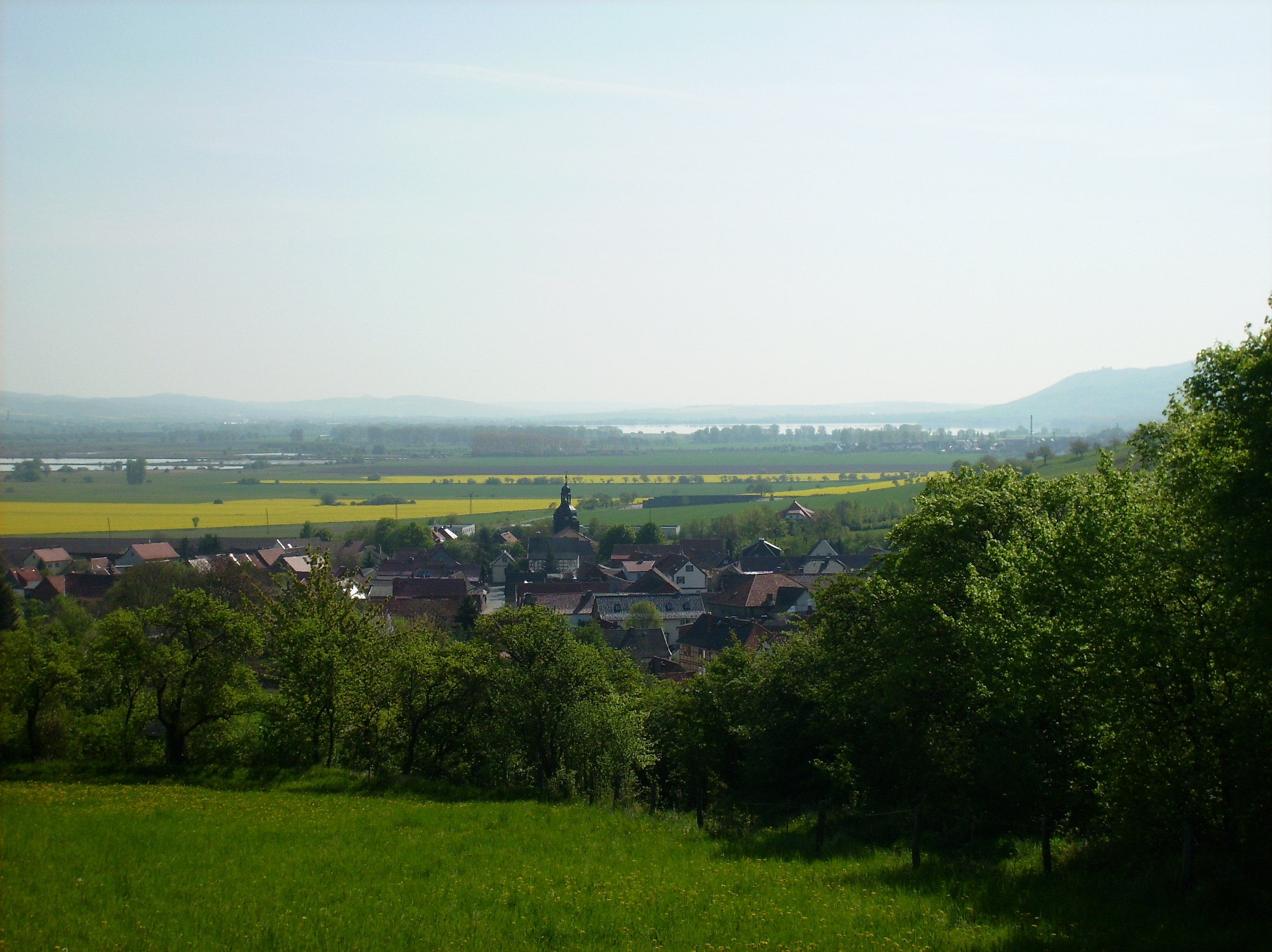 View of the village of Hamma (Heringen/Helme, Nordhausen district, Thuringia) with the Kelbra Reservoir in the background